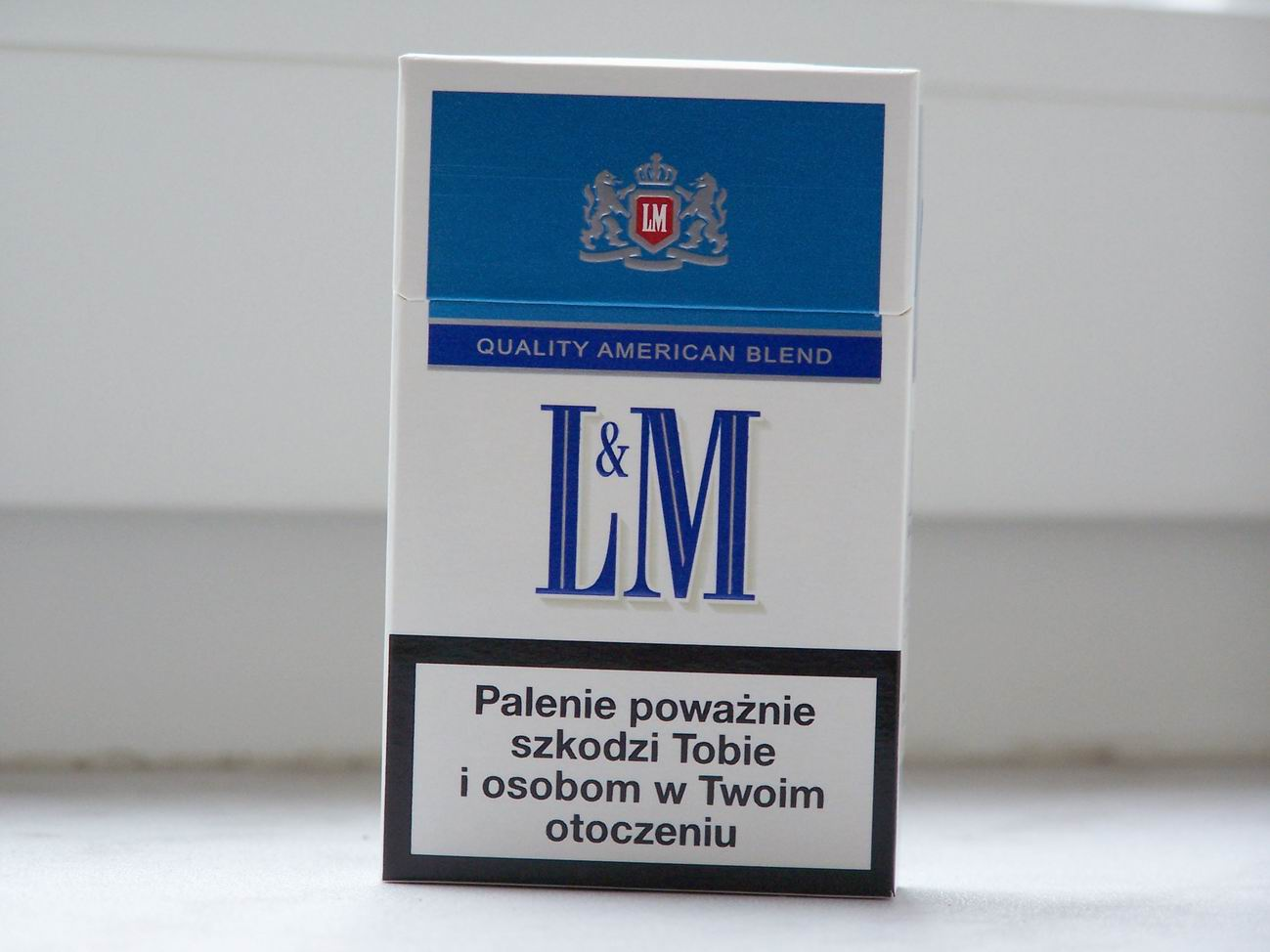 L&M Blue Label (Lights) cigarettes. From Poland.